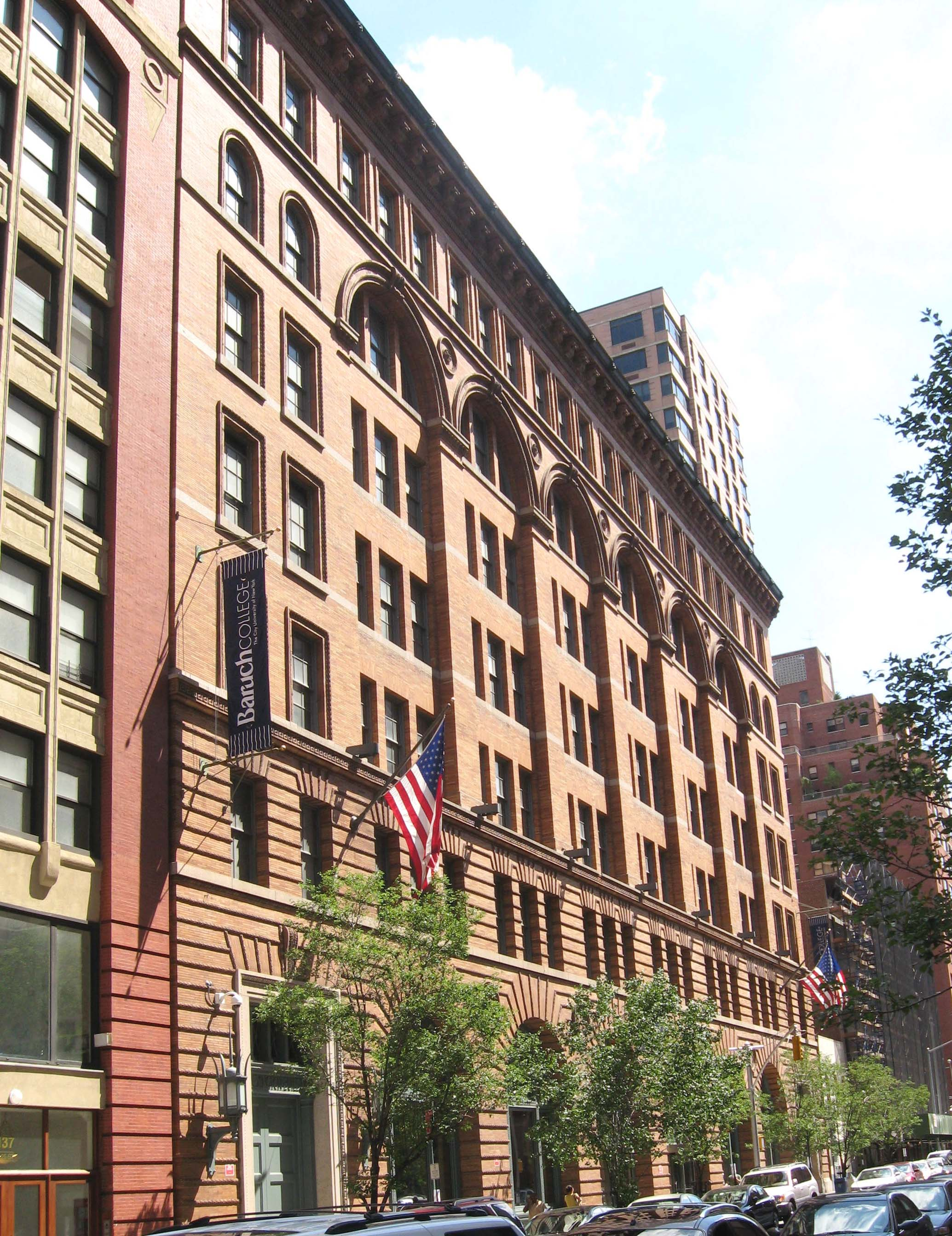 Looking east at Newman Library of Baruch College on a sunny midday